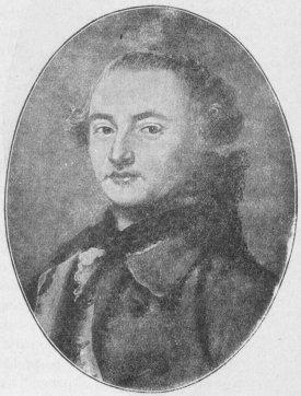 Georg Magnus Sprengtporten, Swedish count and the first Governor-General of Finland